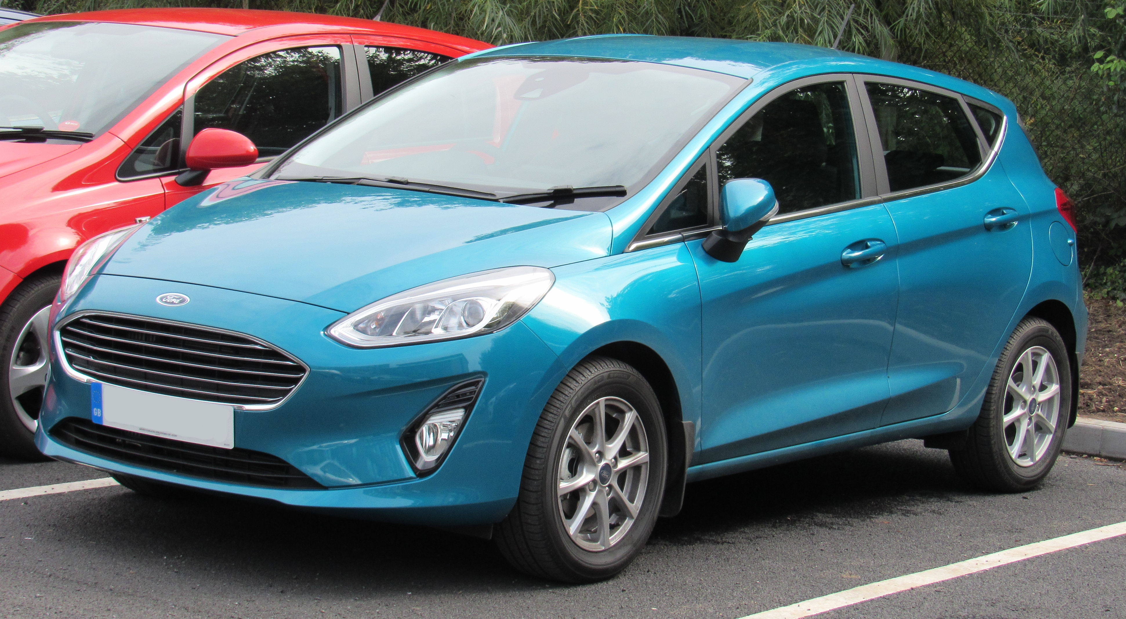 2017 Fiesta Zetec Turbo 1.0 Front Taken in Leamington Spa